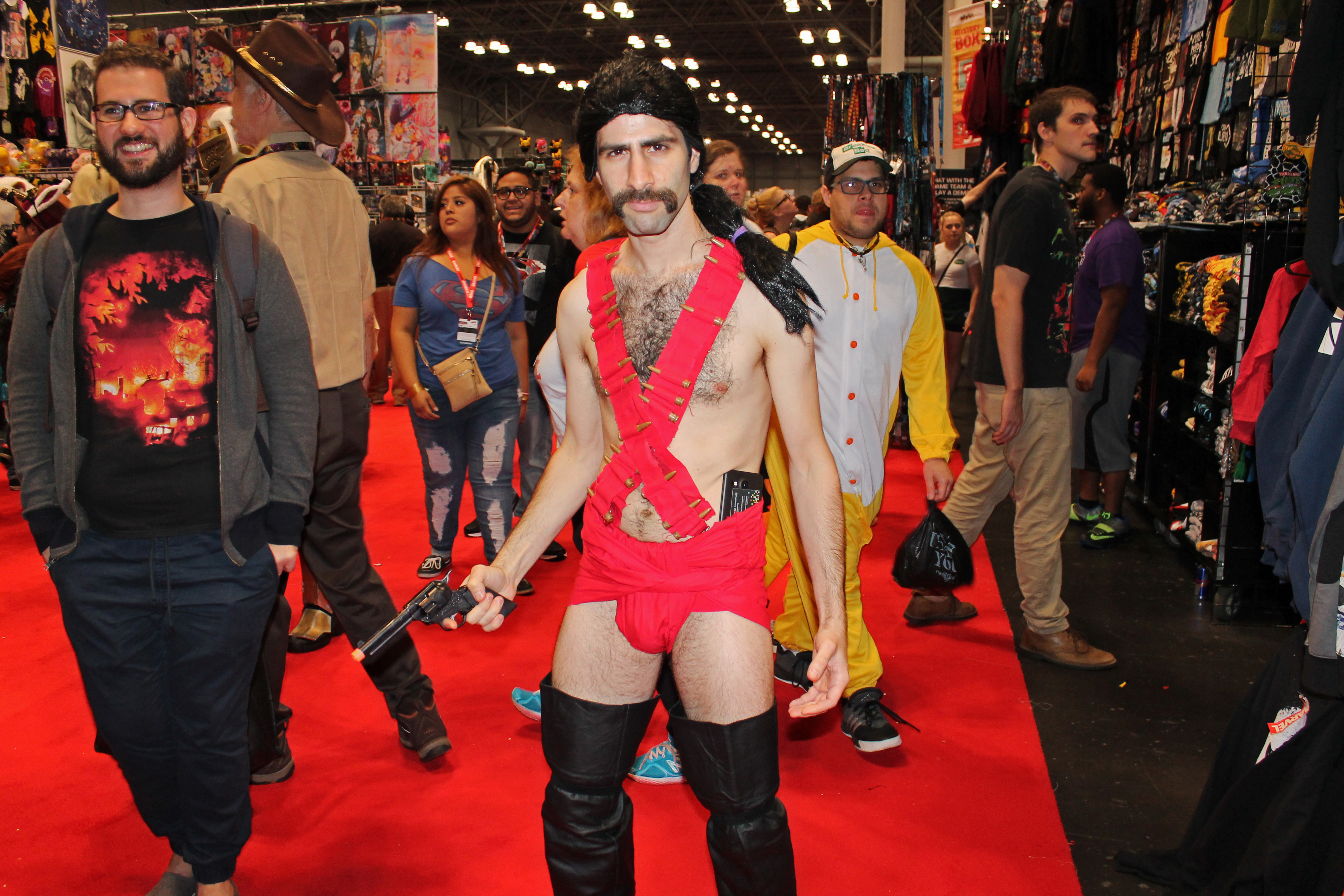 Cosplay at New York Comic Con 2016 (NYCC 2016).